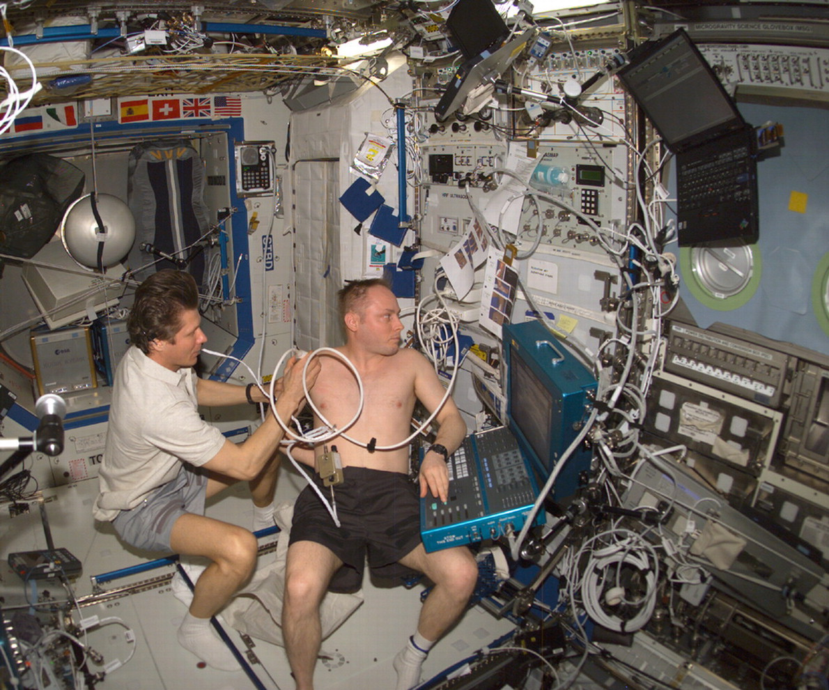 RSA cosmonaut Gennady Padalka performs an ultrasound exam on NASA astronaut Michael Fincke during Expedition 9 aboard the International Space Station.